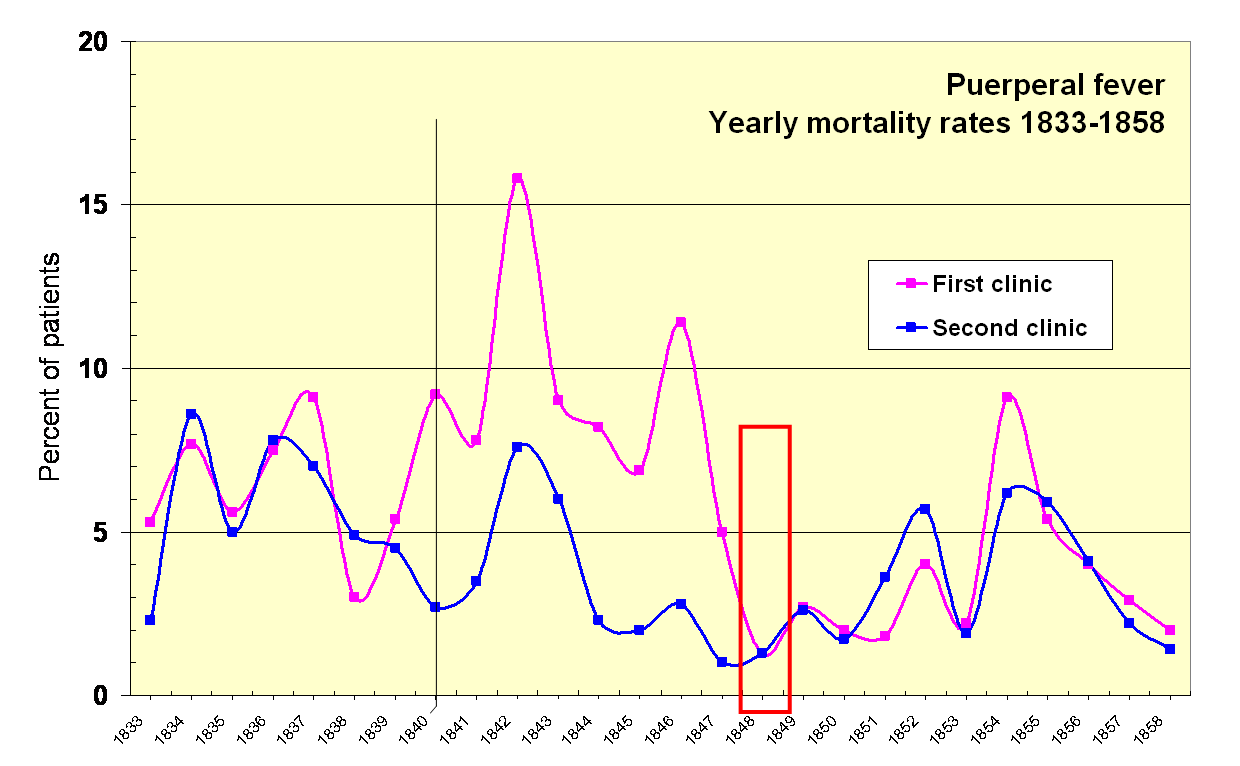 Puerperal fever yearly mortality rates at the Vienna Maternity Institution 1833-1858 for the First and Second obstetrical clinics. Period with Semmelweis' handwashing policy marked with red rectangle. Separation of staff at clinics 1849/41 marked with vertical line.